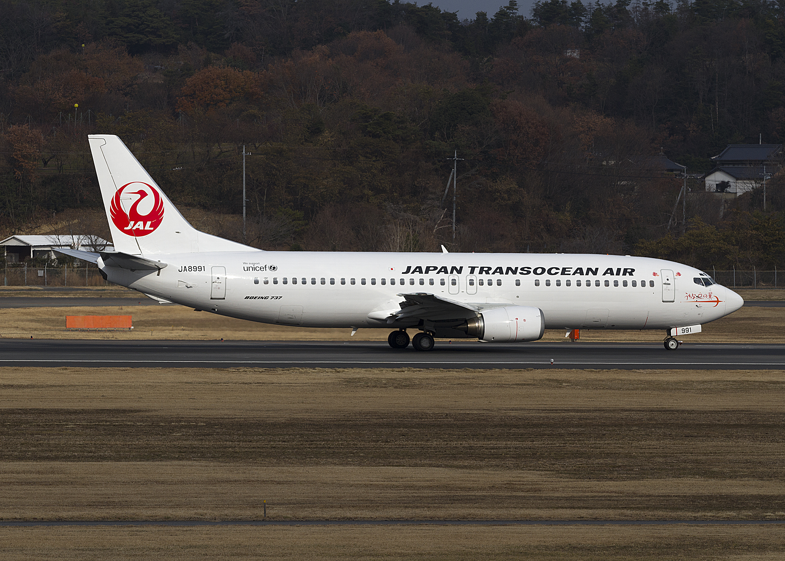 Japan Transocean Air Boeing 737-400 JA8991 New Japan Airlines collar at Okayama Airport